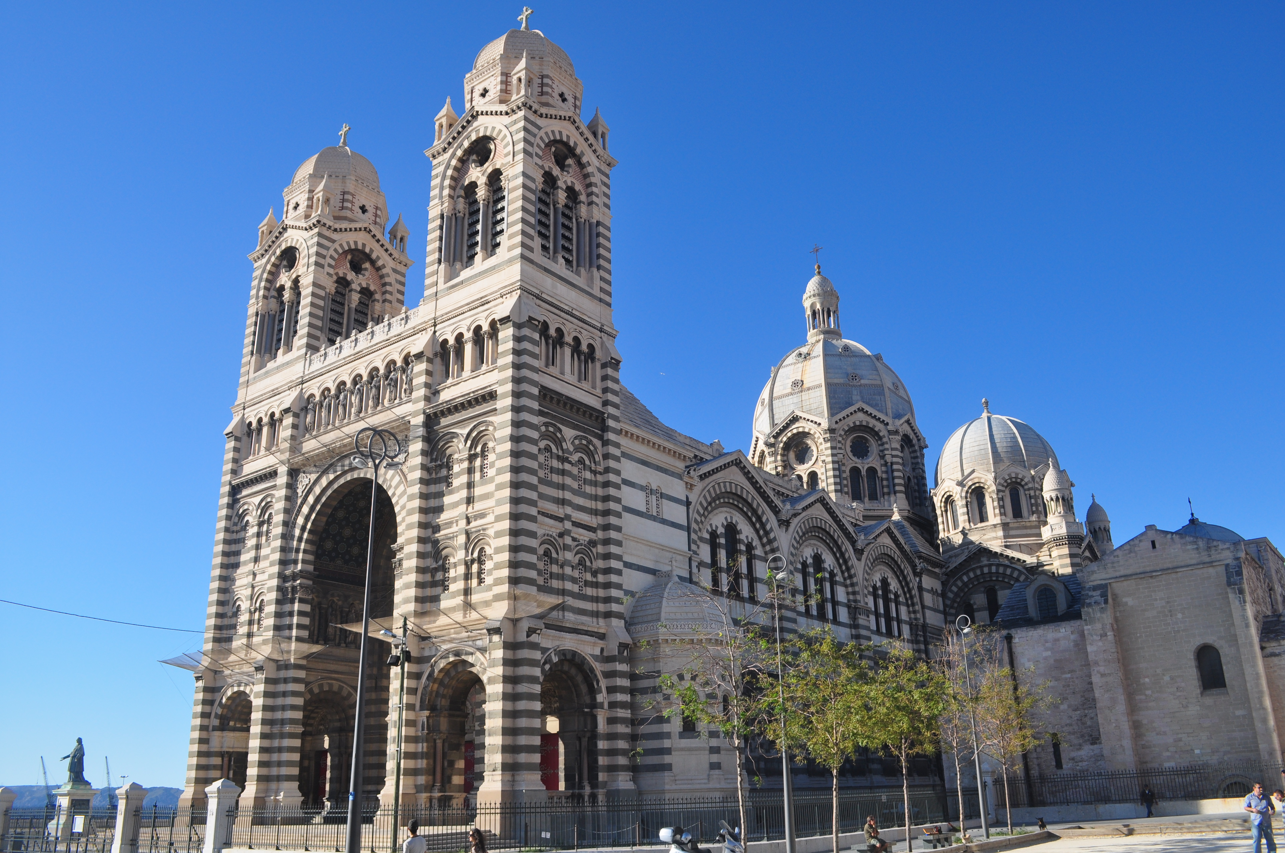 Marseille(France). Cathedral Sainte-Marie-Majeure(1)